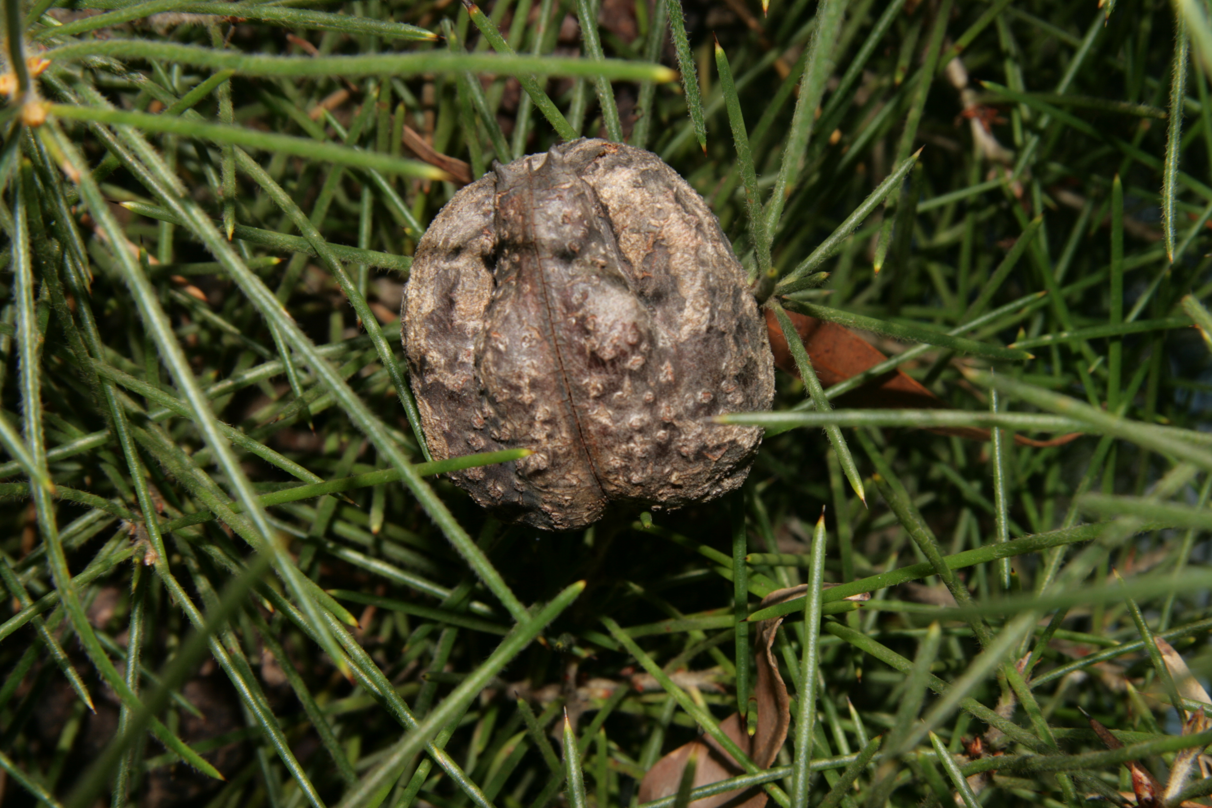 Hakea gibbosa, follicle (Botany Bay National Park, near Henry Head Lane NW of Golf Club)